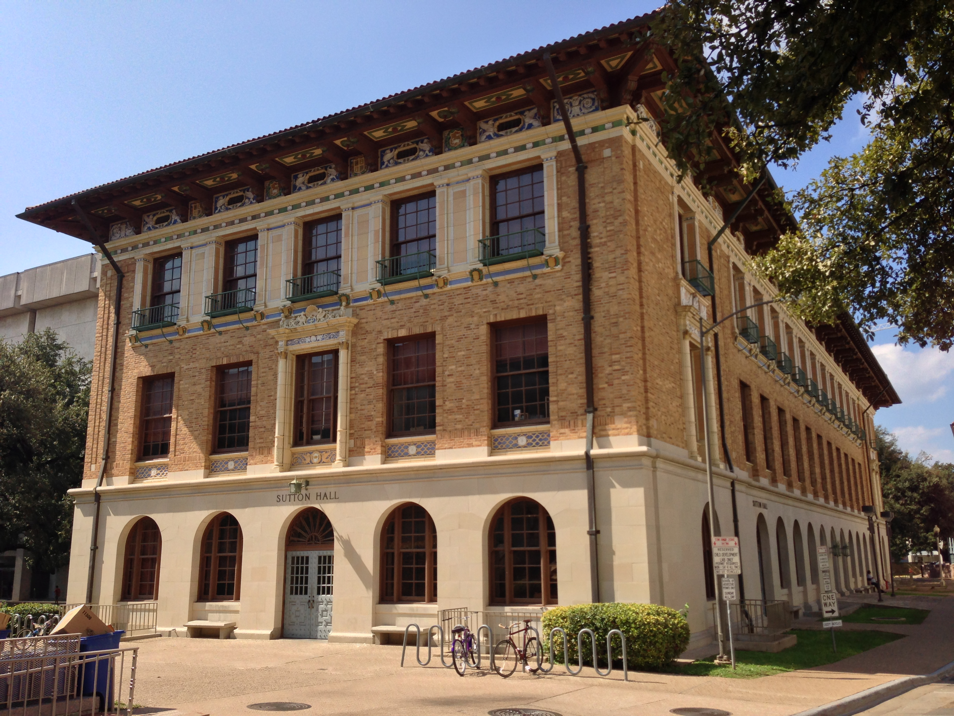 Photo taken from Inner Campus Drive, looking southwest